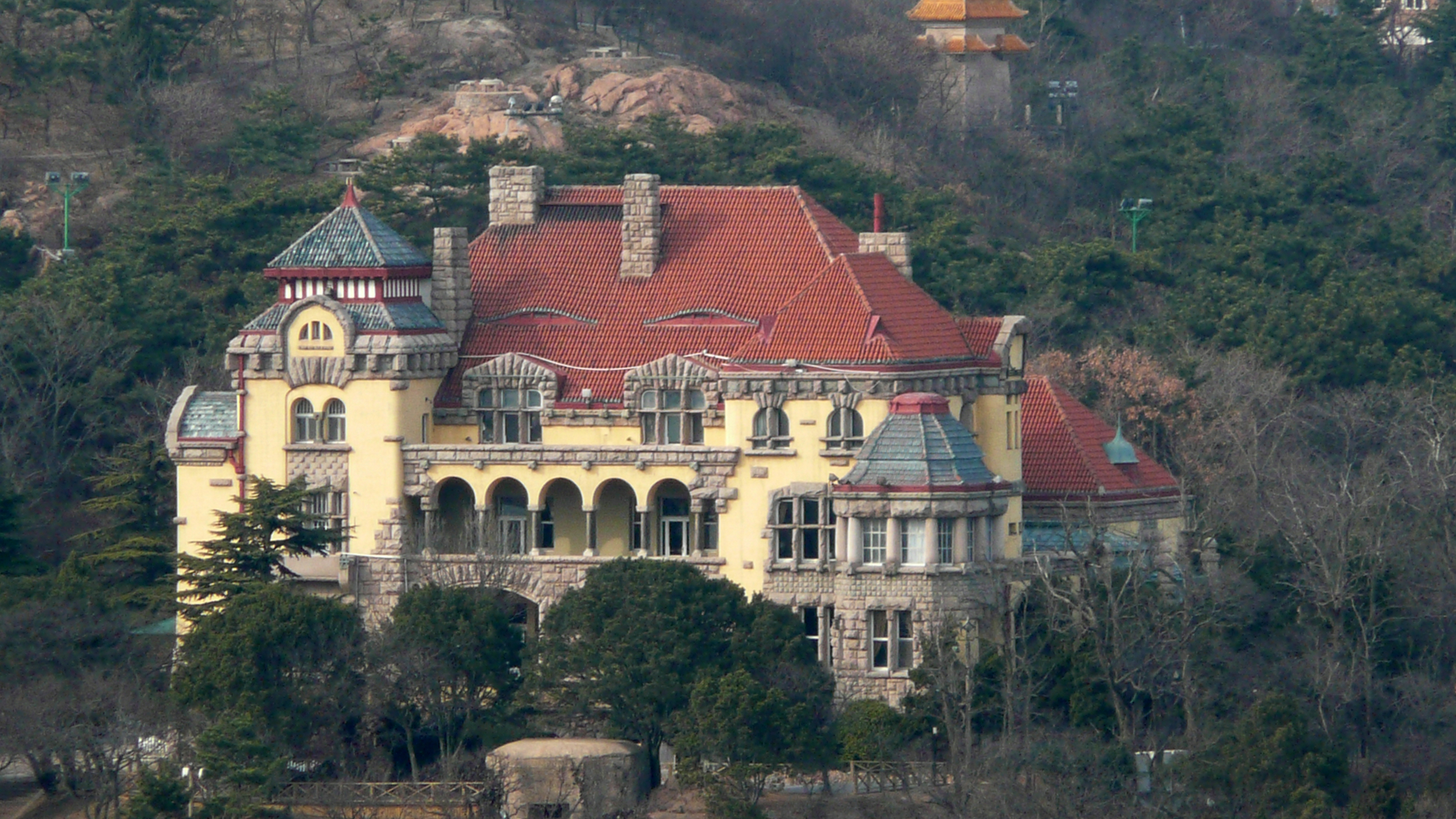 Qingdao site Museum of the former German Governor's Residence